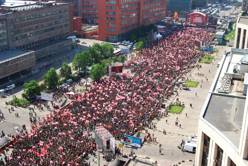 NASHA VICTORY - The Federal action of the youth movement of NASHI. Russia, Moscow